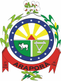 Shield of Araporã City, Minas Gerais, Brazil